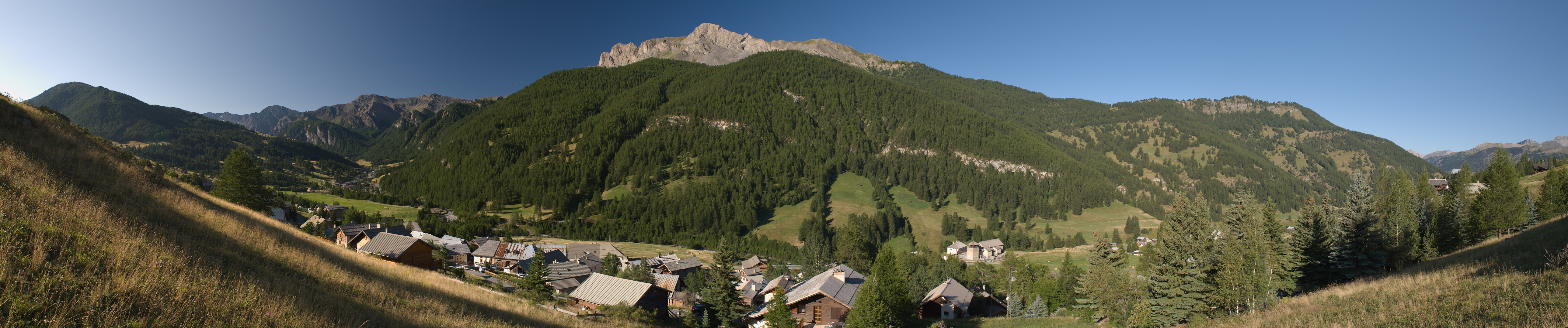 View of the Molines-en-Queras village and his valley.